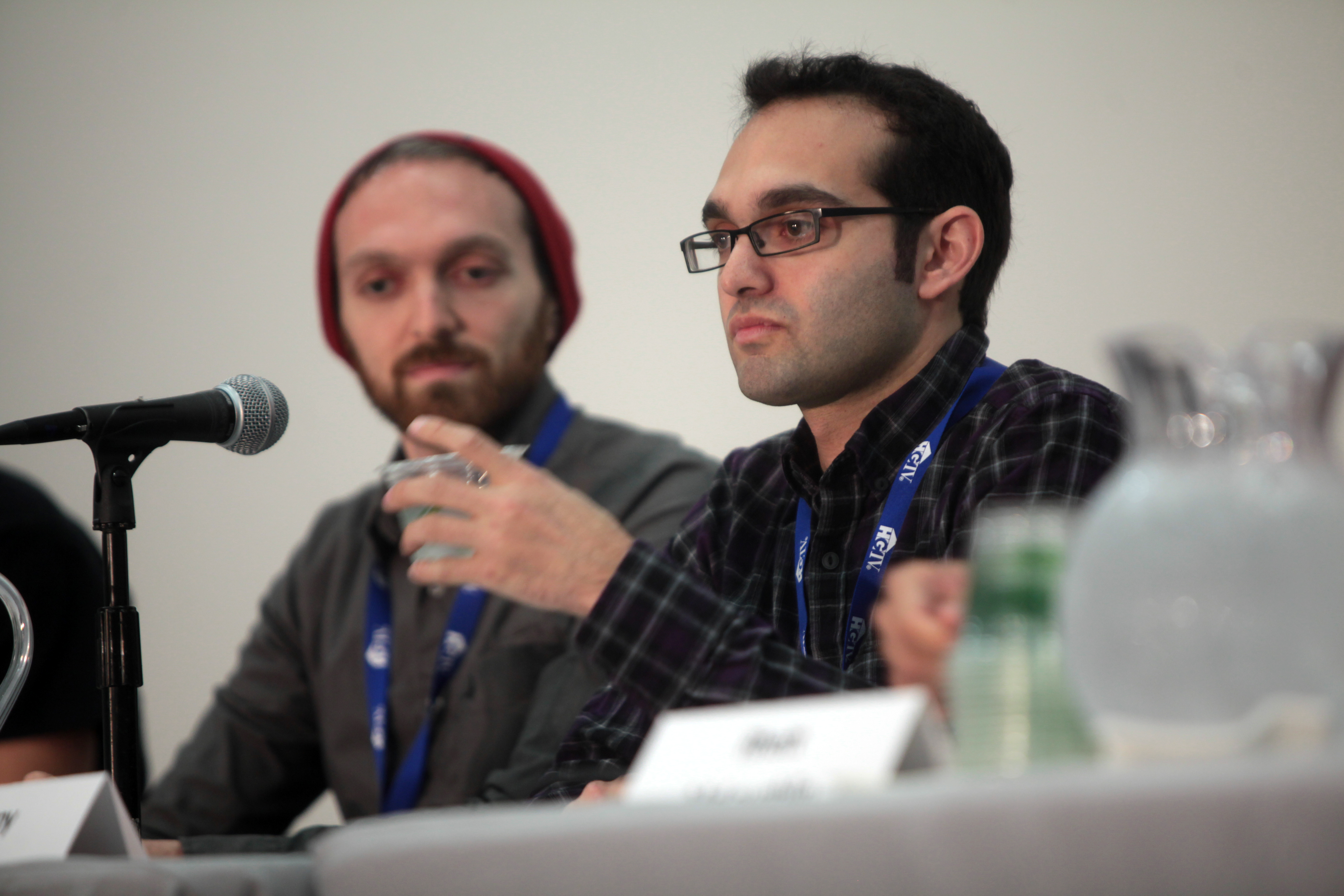 The Fine Brothers (L-R: Rafi and Benny) on a panel at VidCon 2014